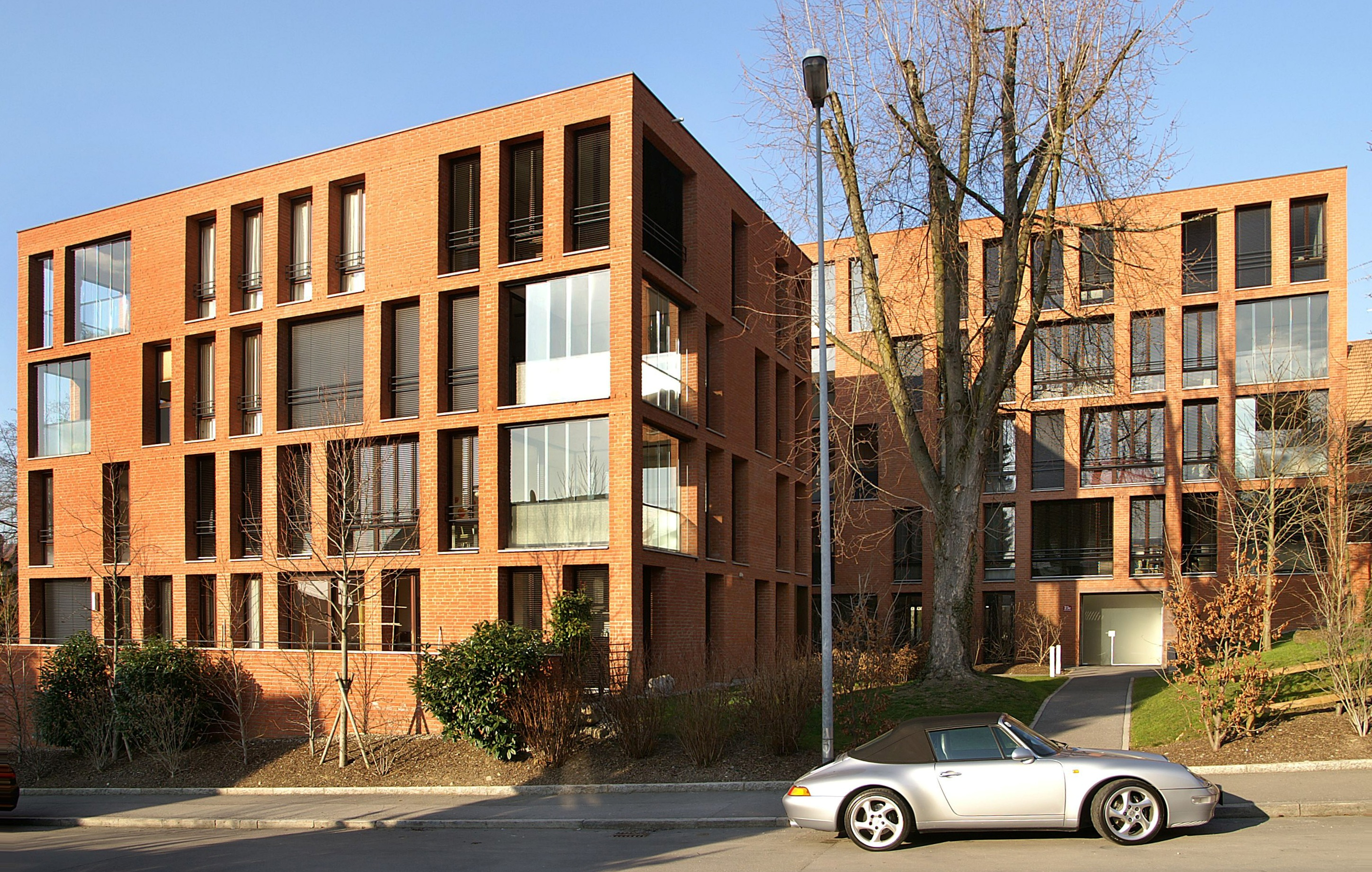 "Verwalter" residences, Dornbirn, Austria. Design by Baumschlager & Eberle (2003)